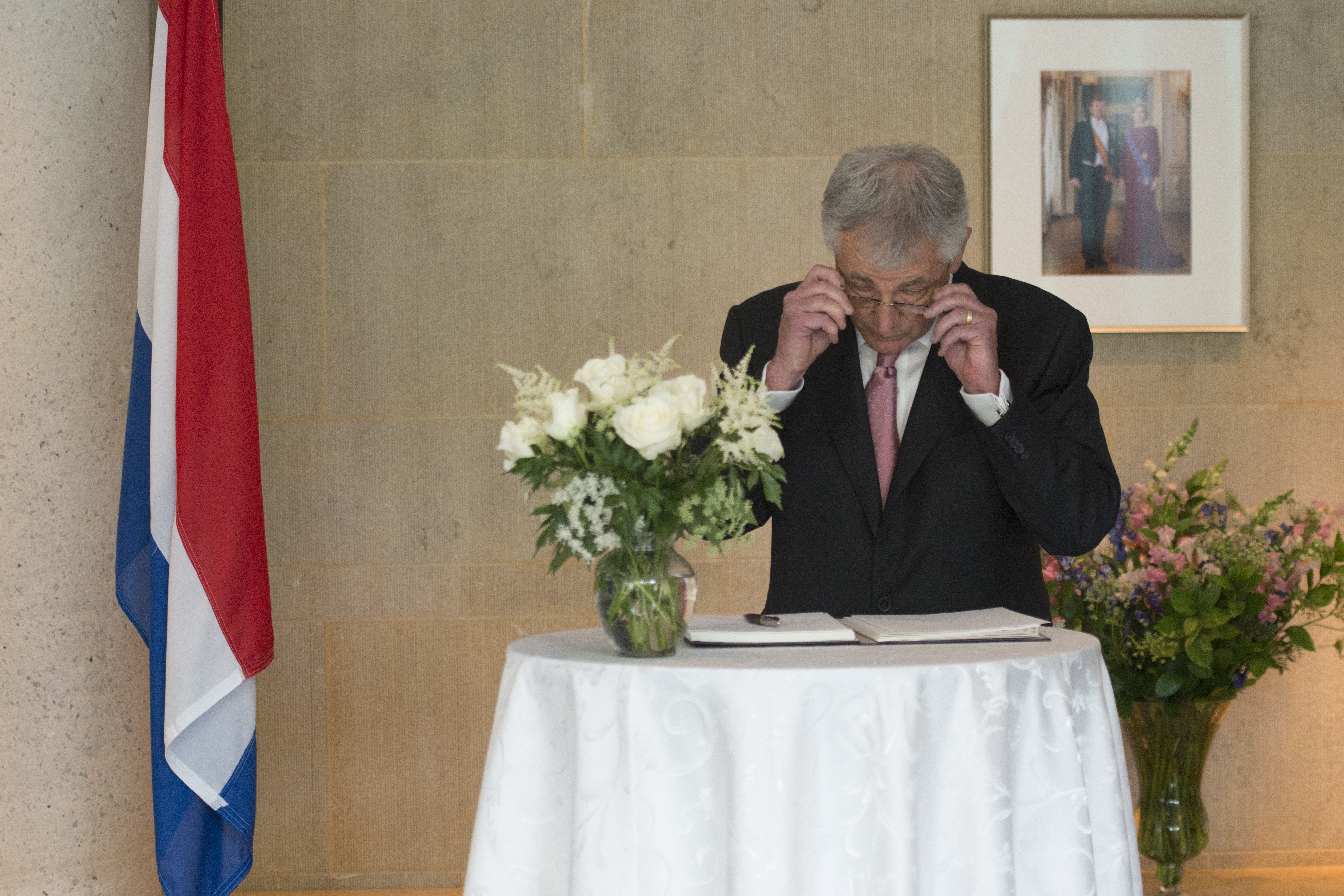 Secretary of Defense Chuck Hagel signs a condolence book for the victims of Malaysia Airlines Flight 17 at the Embassy of the Kingdom of the Netherlands in Washington, July 21, 2014.